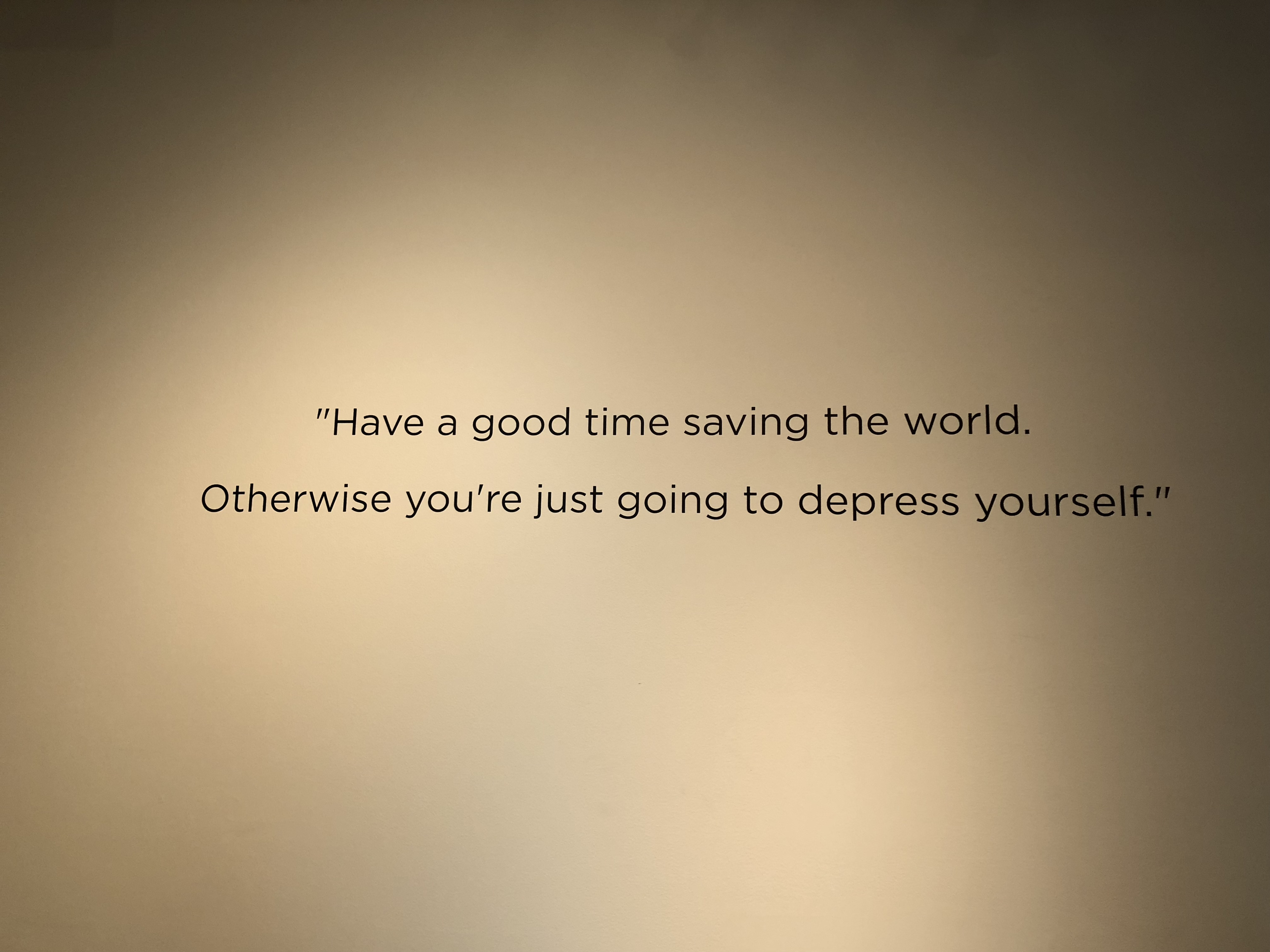 unknown author, words printed on the wall at the David Brower Center in Berkeley, California